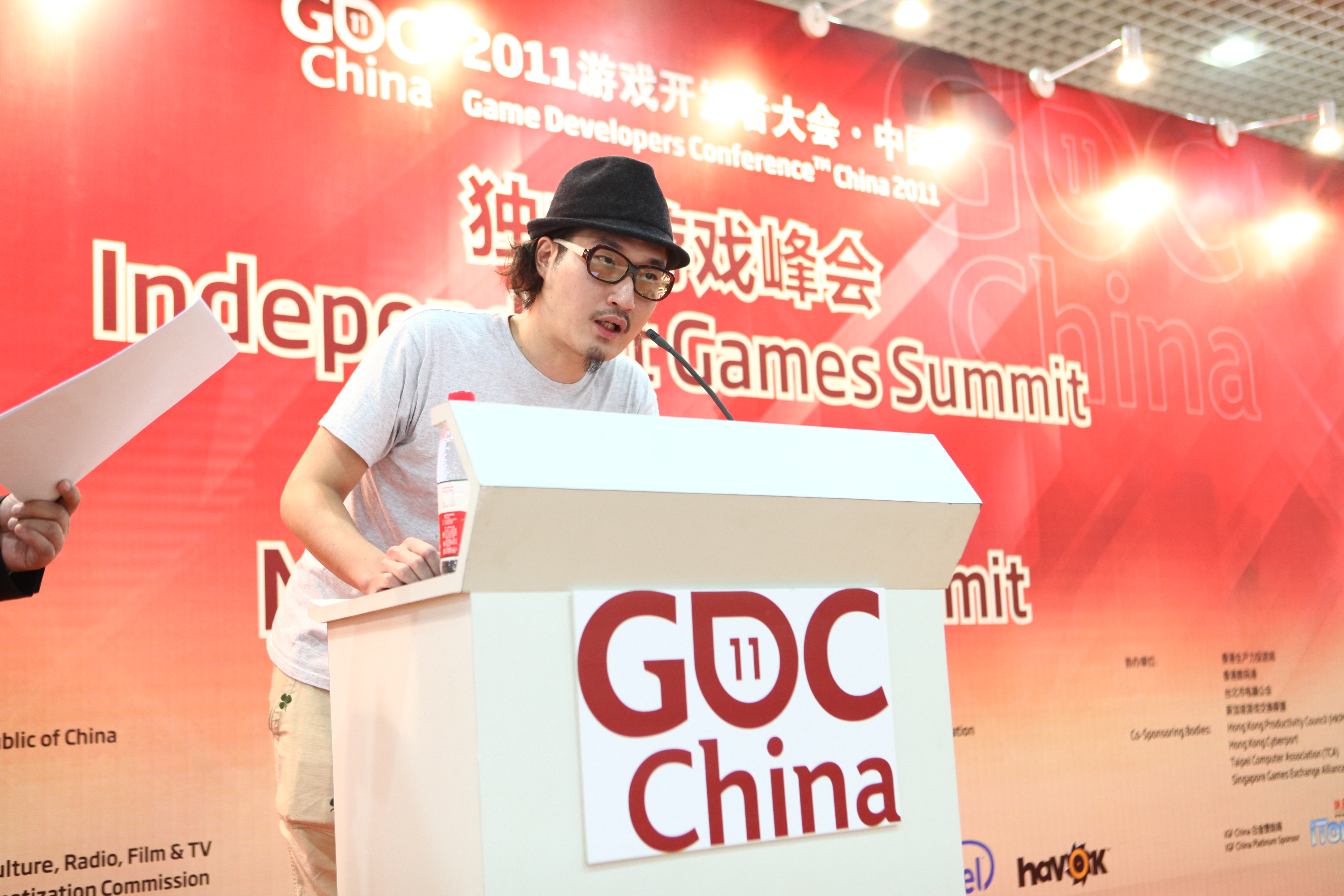 Baiyon during his keynote at GDC China 2011.